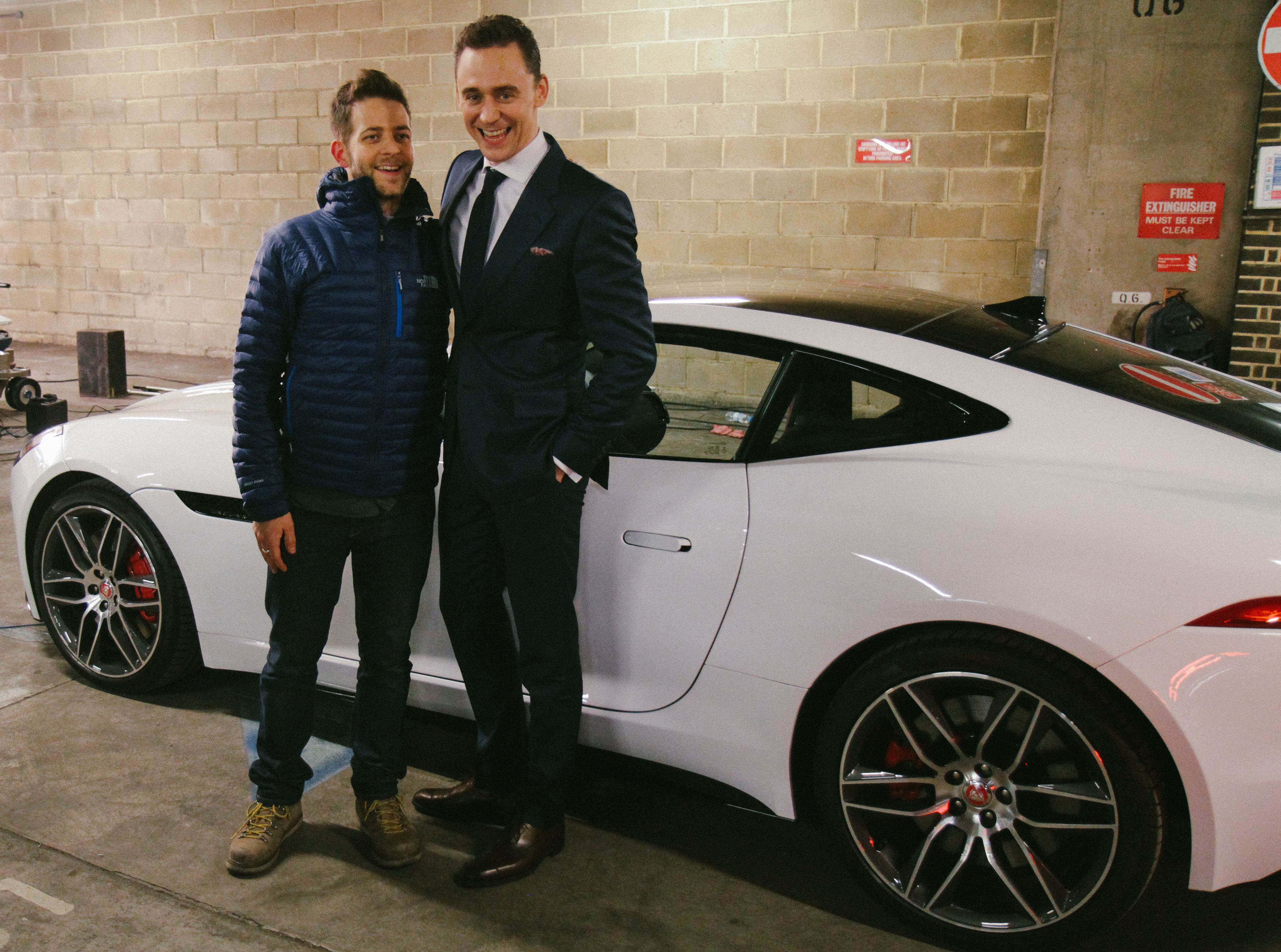 Actor Tom Hiddleston and director Mark Jenkinson on the set of the Jaguar F-TYPE commercial. Filmed on February 15, 2014